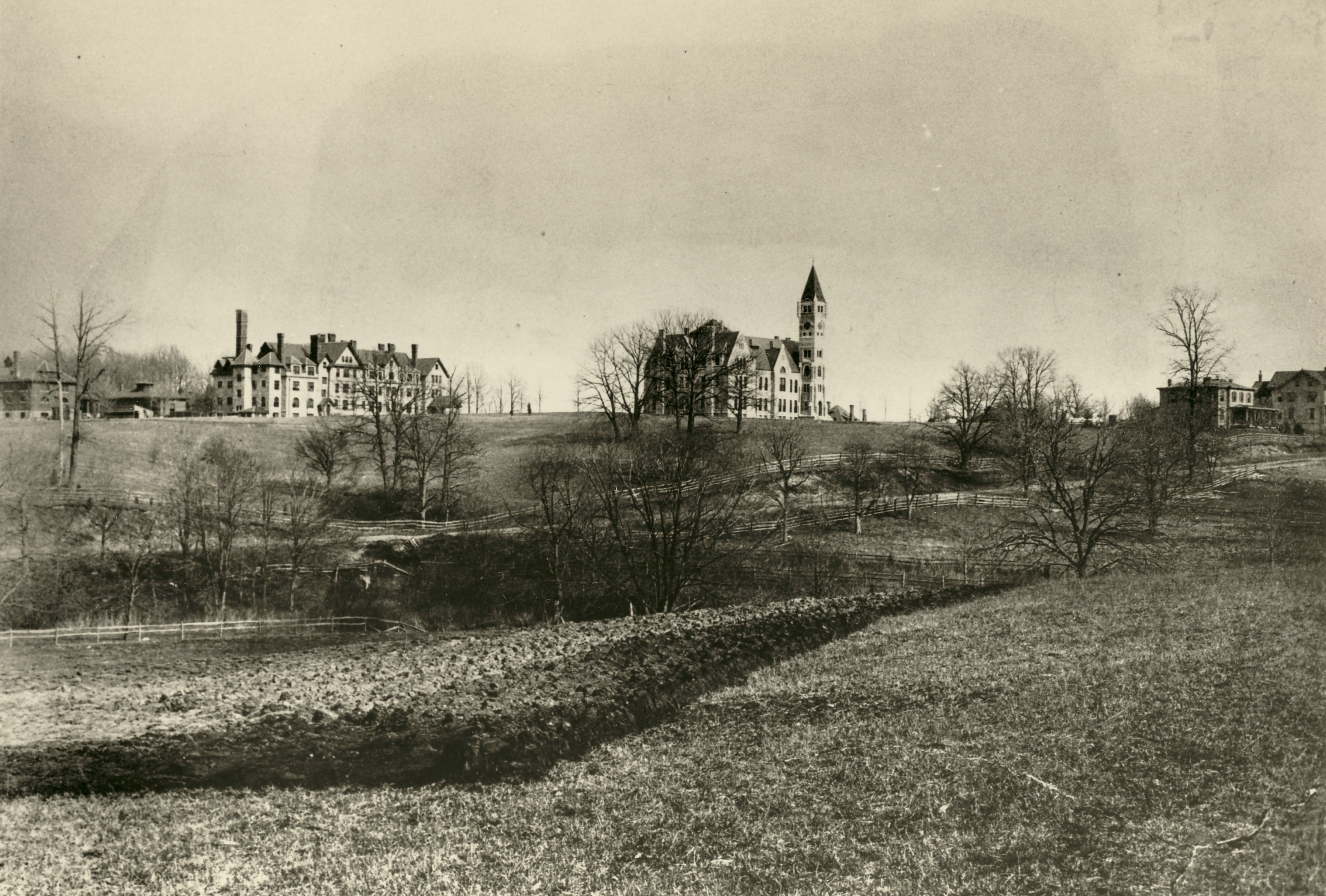 Local Accession Number: 1831-A Description: Long-distant shot of Bryn Mawr's campus at the time of Woodrow Wilson's tenure there. Photographer: Unknown Source: Princeton University Library Size: 8x10 Medium: Print, Black and White Date: 1886